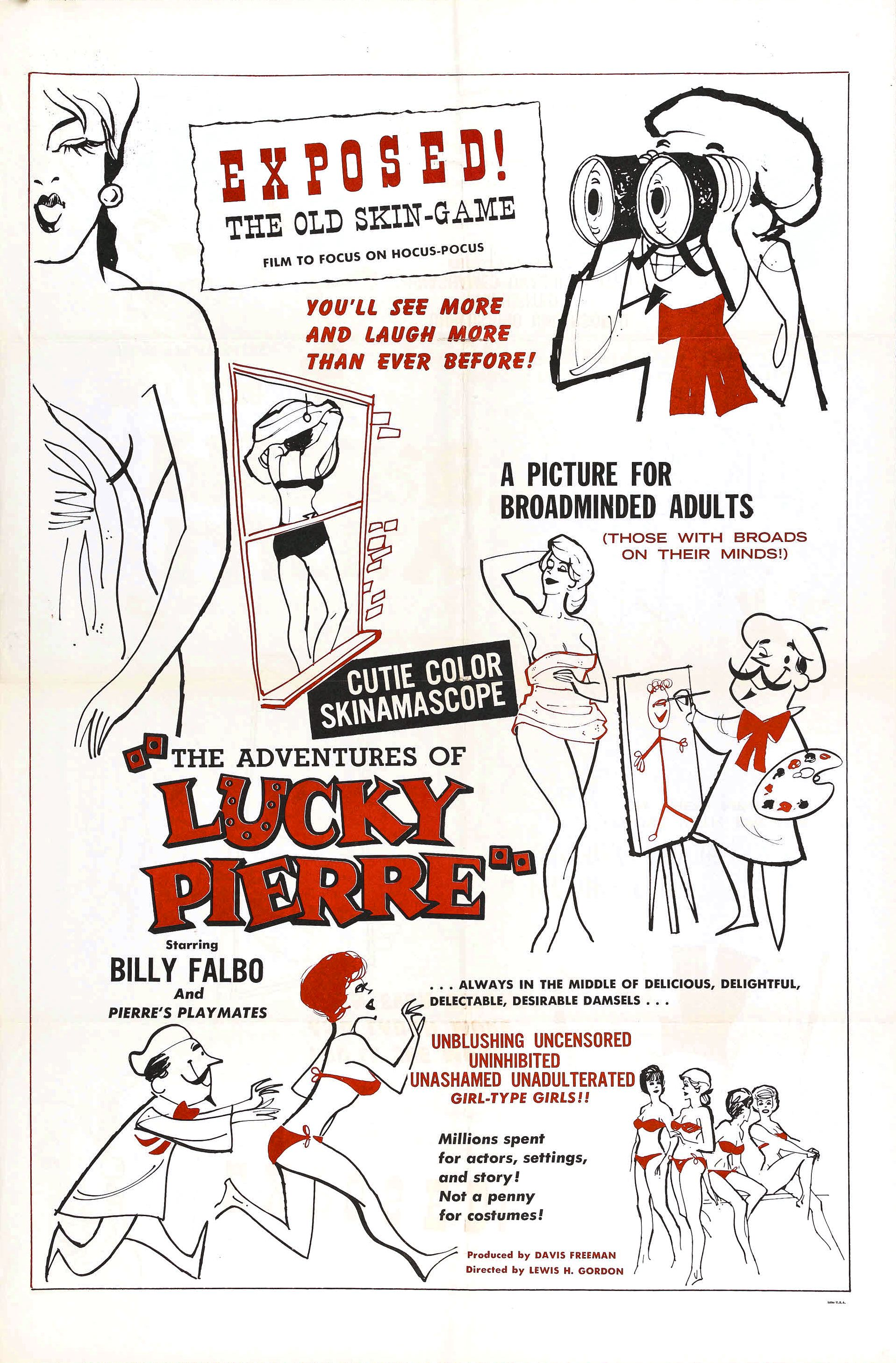 Film poster for the 1962 sexploitation film The Adventures of Lucky Pierre